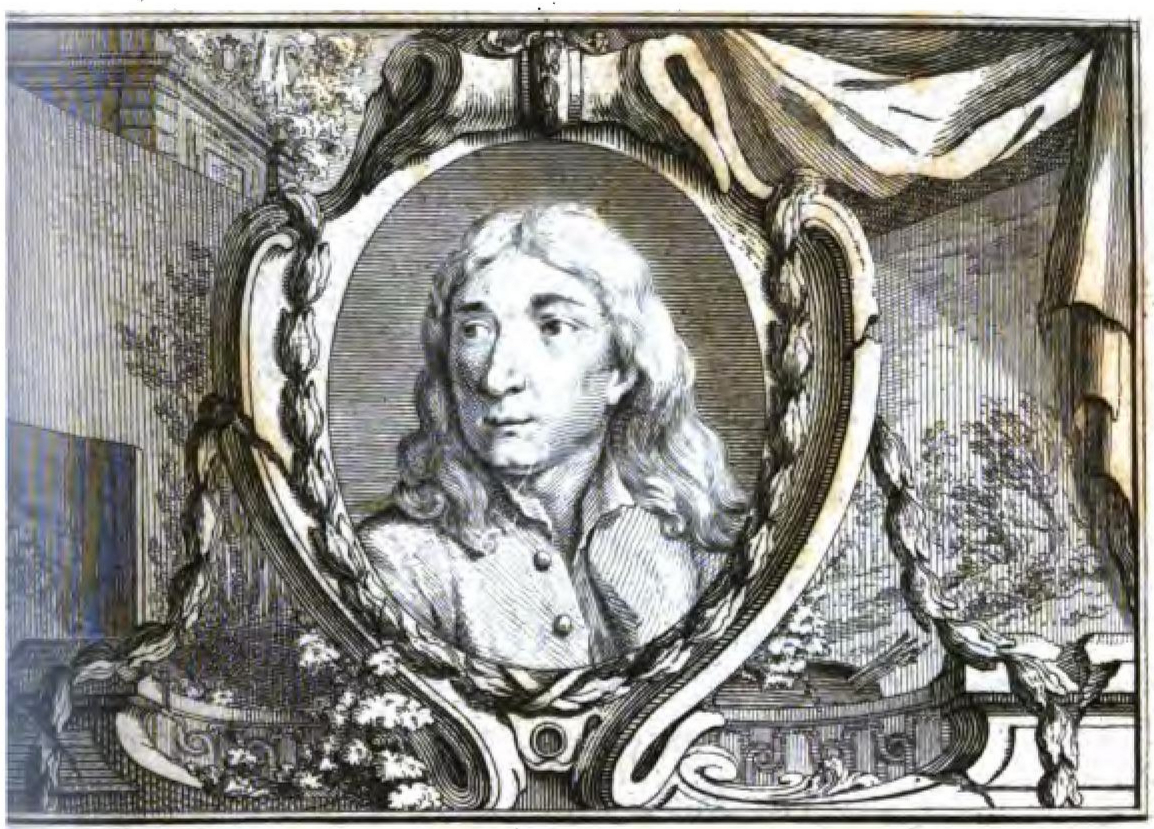 The Lives of Flemish, German, and Dutch painters, Volume III, p.241 Cornelis Huysmans (1648-1727) Painter biographies by John-Baptist Descamps, comprising four volumes, 1753-1764